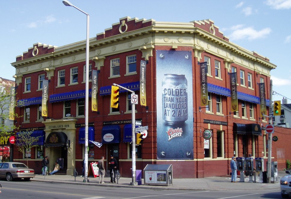 The Brunswick House, taken by SimonP